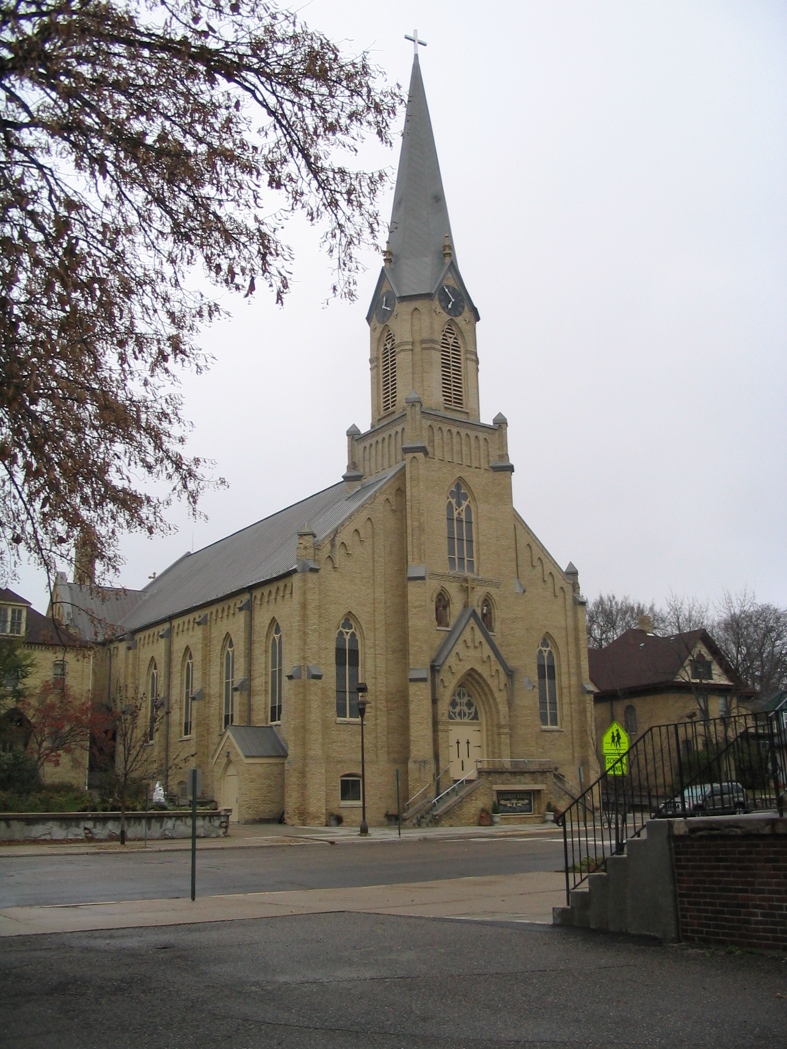 Photographed by ECrowell (self)